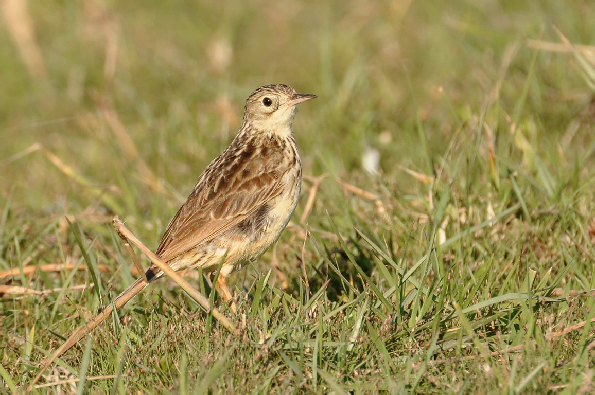 A Yellowish Pipit in Mostardas, Rio Grande do Sul, Brazil.